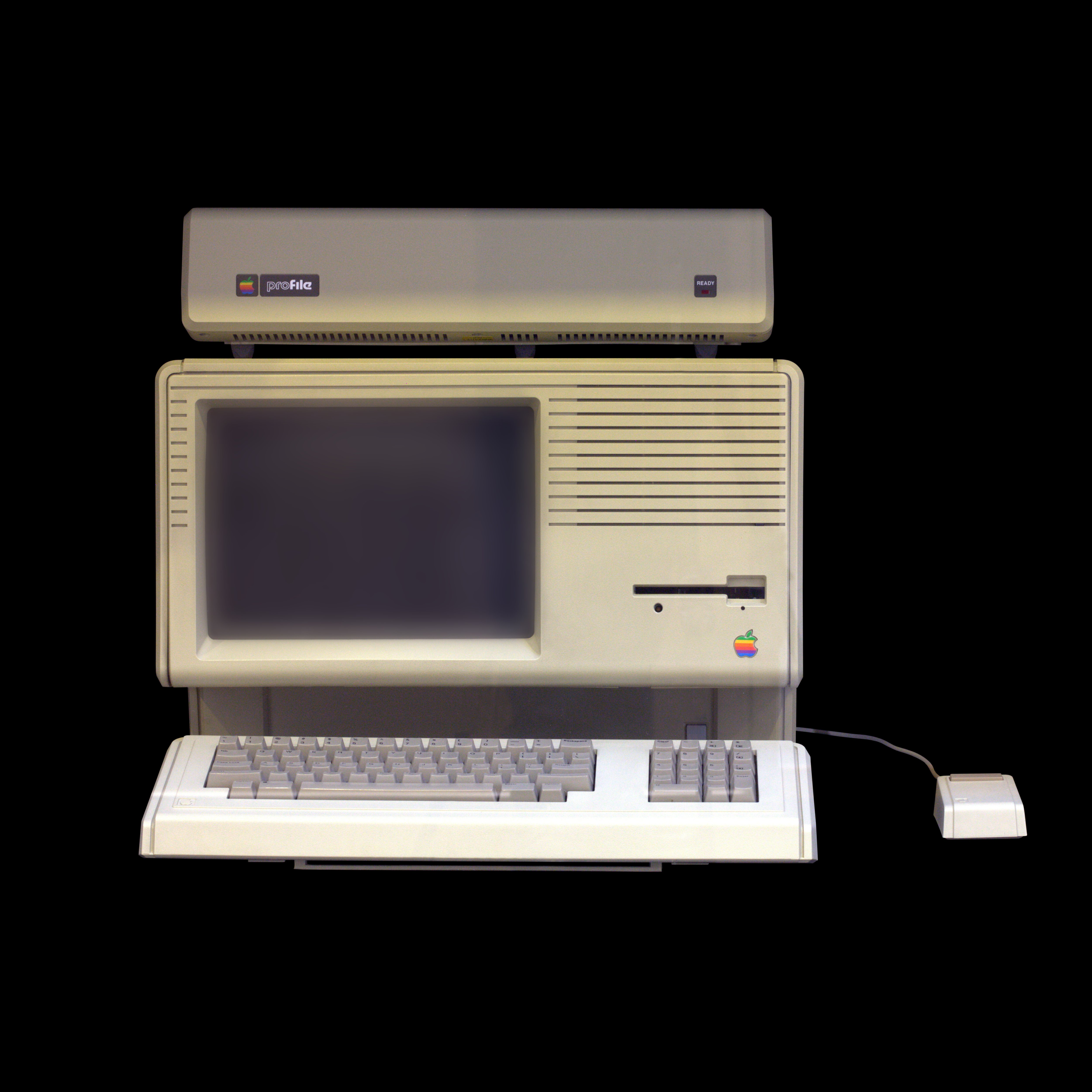 Apple Lisa 2 computer. On display at the Musée Bolo, EPFL, Lausanne. The making of this document was supported by Wikimedia CH. (Submit your project!) For all the files concerned, please see the category Supported by Wikimedia CH.